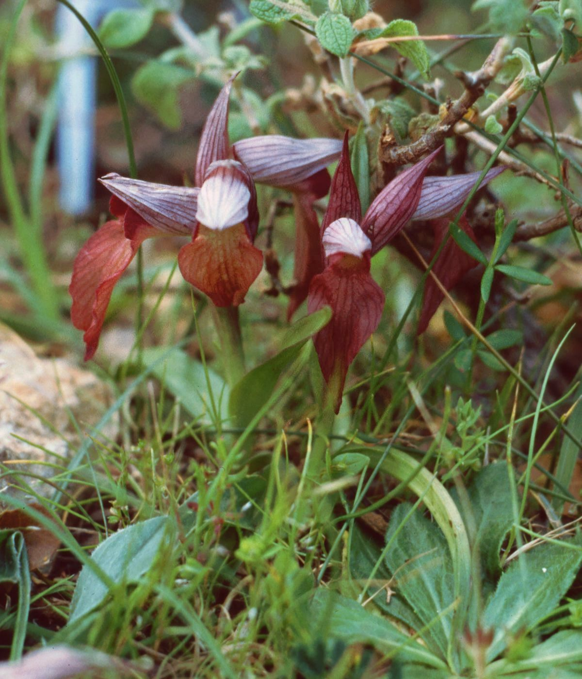 Serapias orientalis subsp. orientalis (= Serapias ionica), Orchideen (Orchidaceae) – Griechenland/Ελλάδα/Greece: Palikí/Παλική, Moní Yperagías Theotókou Kipouréon/Μονή Υπεραγίας Θεοτόκου Κηπουραίων (Kefallinia/Κεφαλληνία)